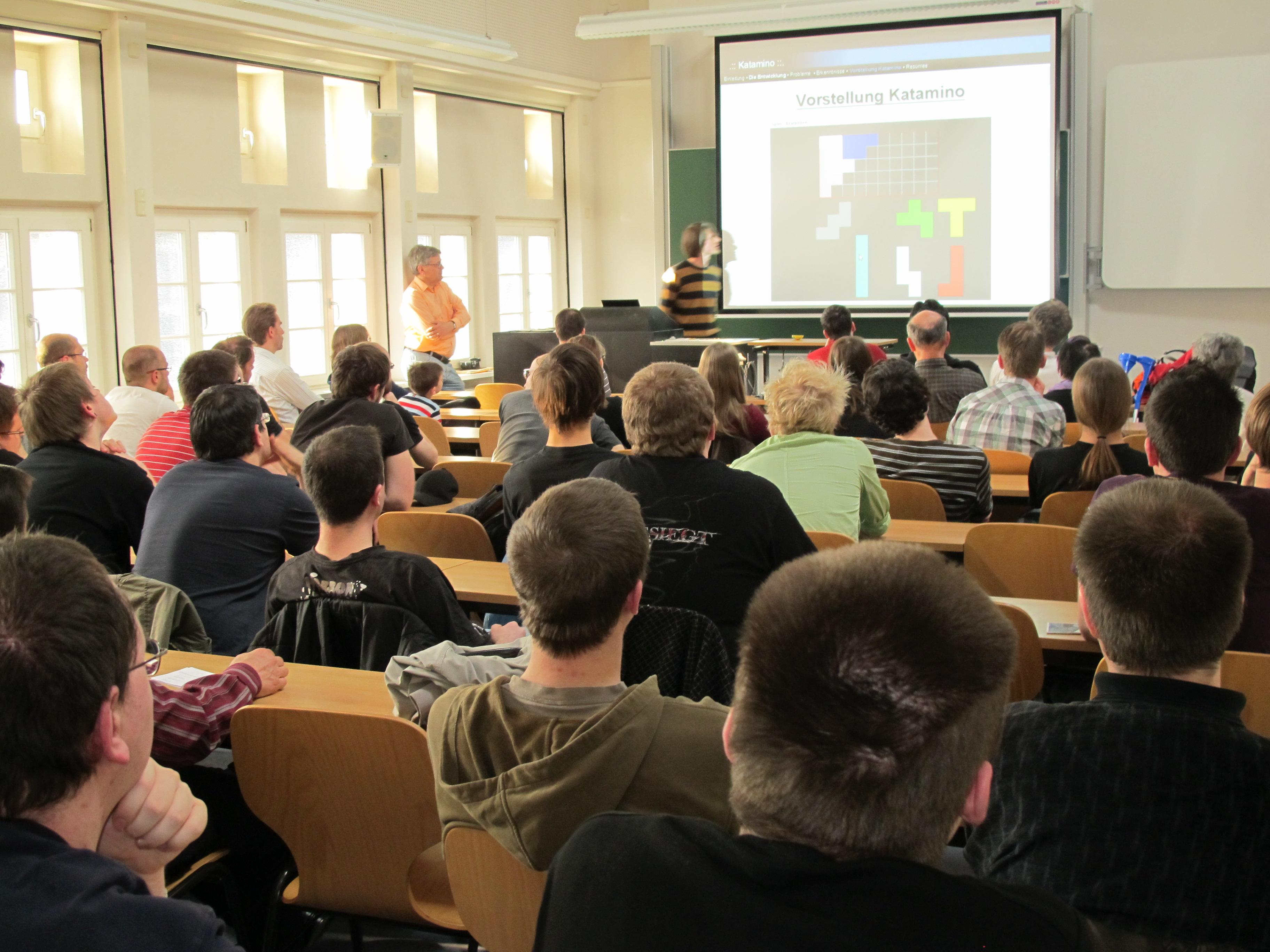 HTWK Leipzig - Lange Nacht der Computerspiele